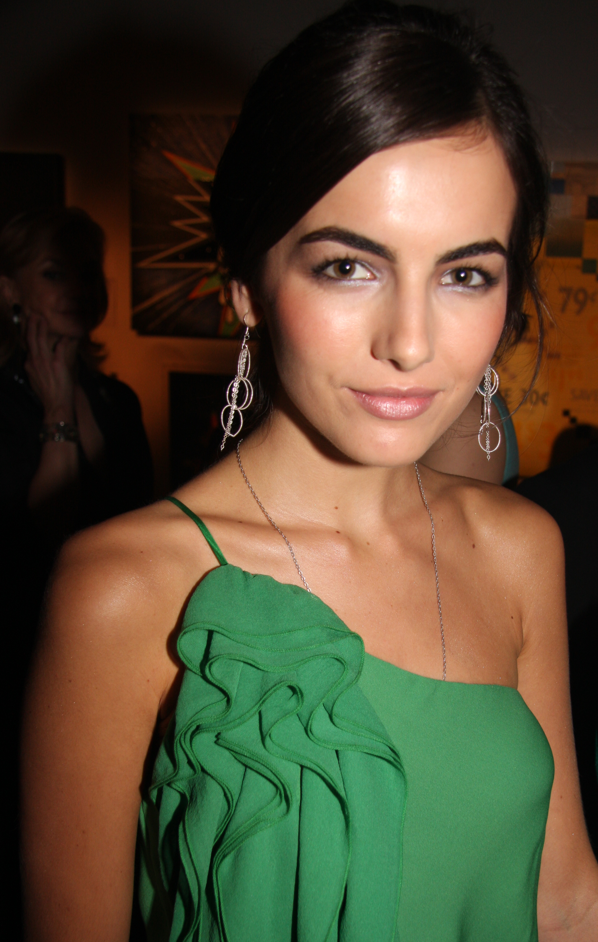 Camilla Belle in June 2009.